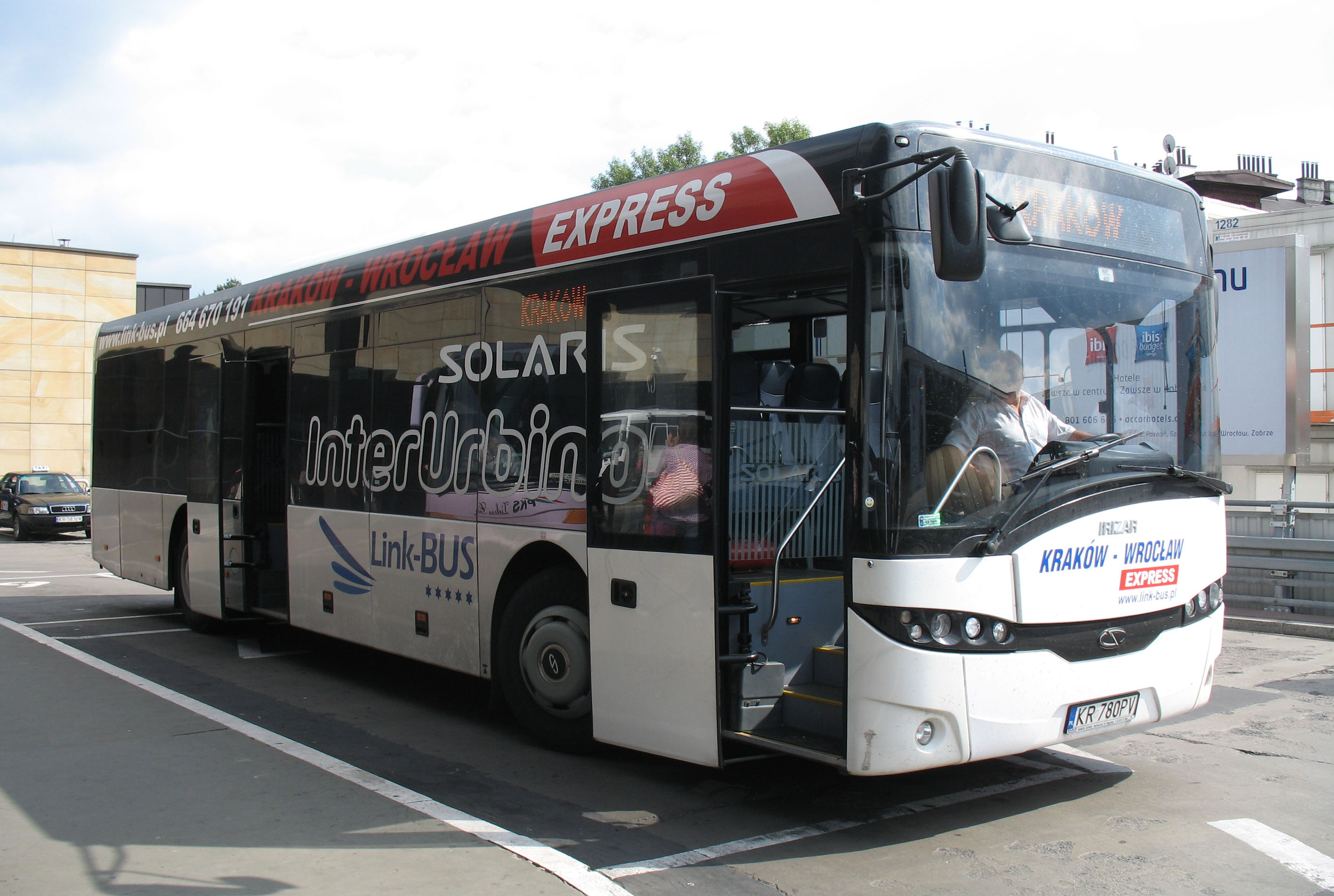 Solaris InterUrbino 12 bus (reg. KR 780PV) in Kraków, Poland. Built 2010, Link-BUS from Zabierzów operator.